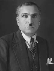 İsmail Hakkı Bey (Uzmay)